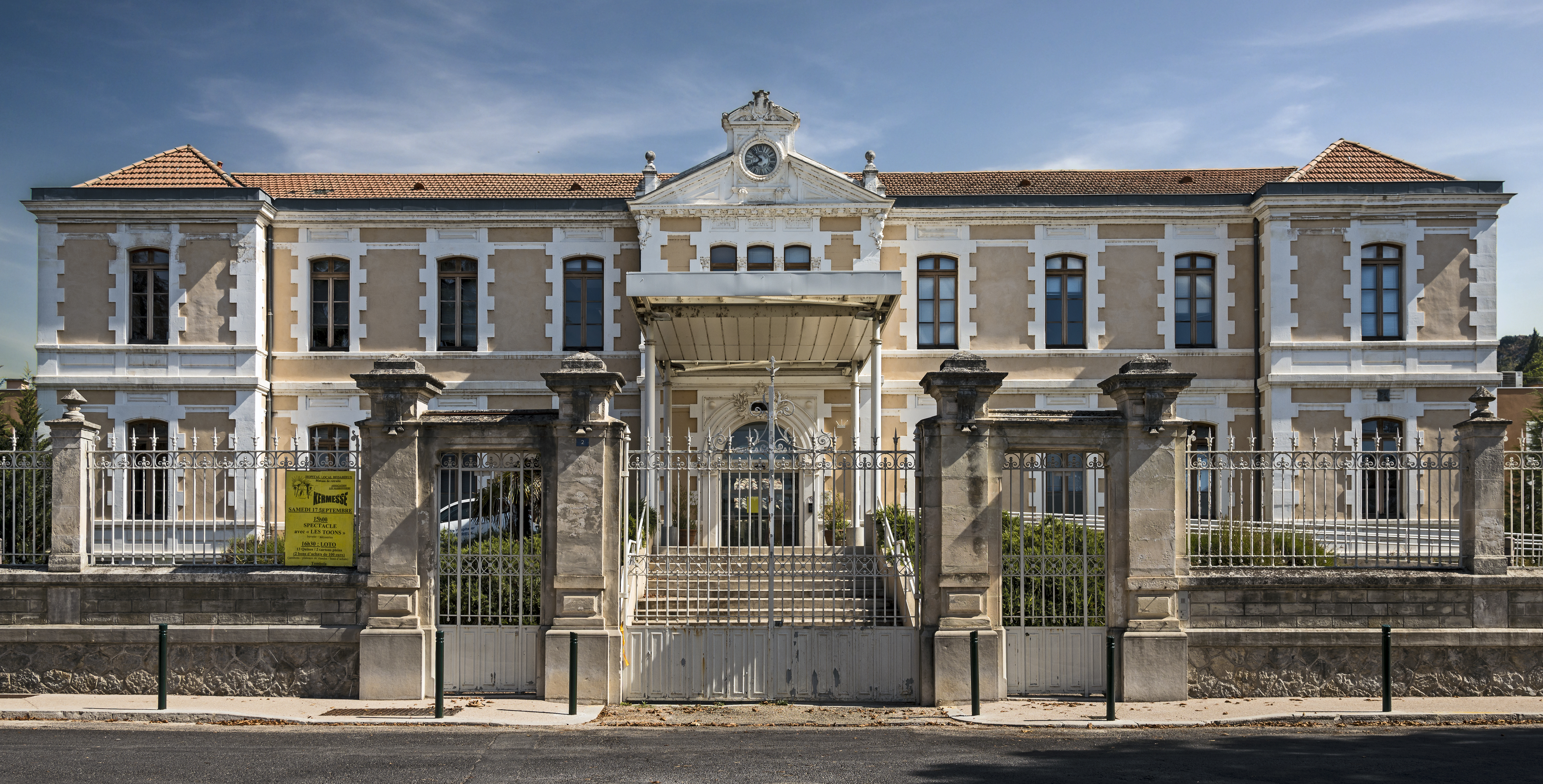 Bédarieux Hérault France - Facade of the hospital.